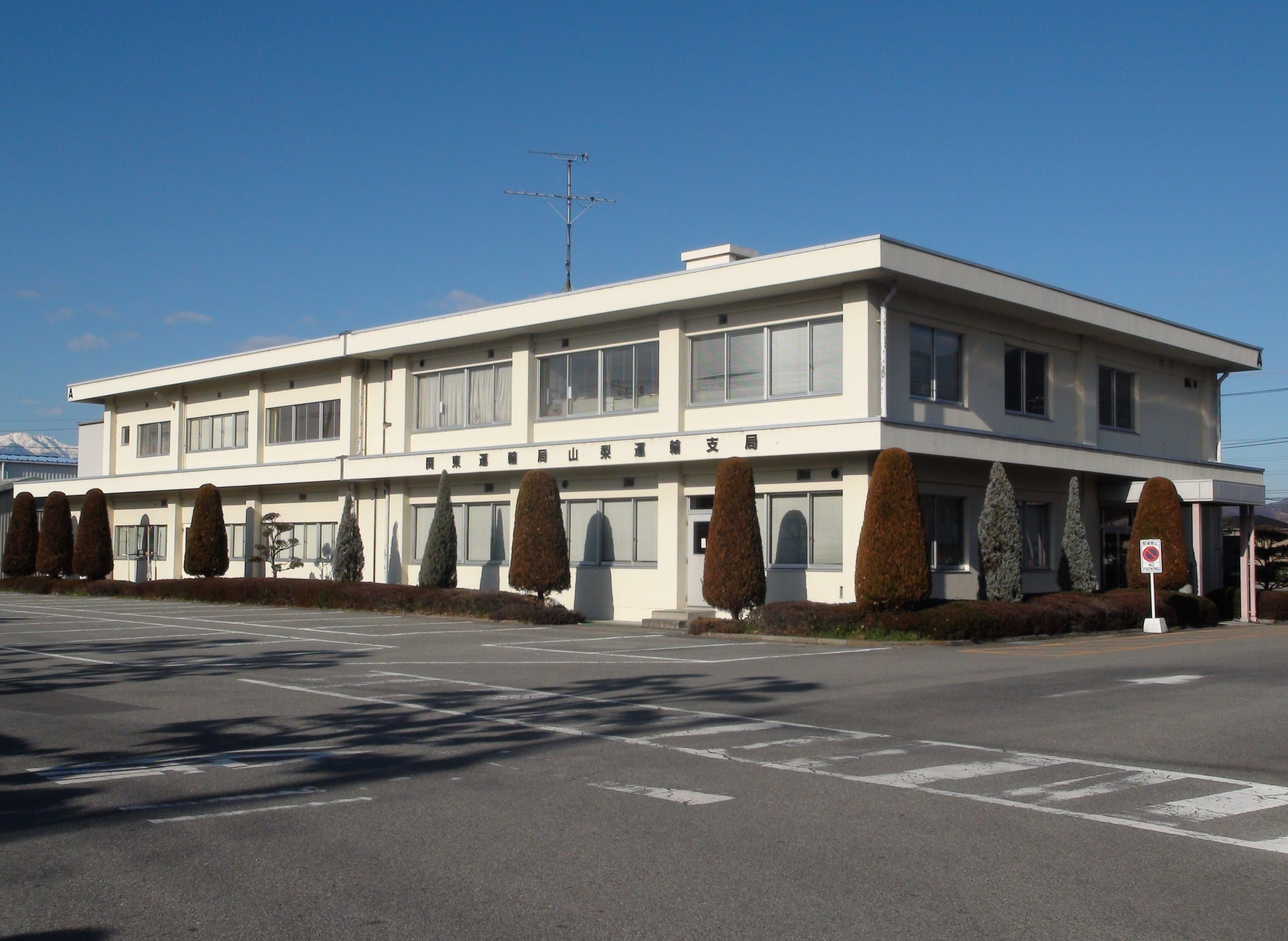 Kanto District Transport Bureau Yamanashi Transport Branch Office